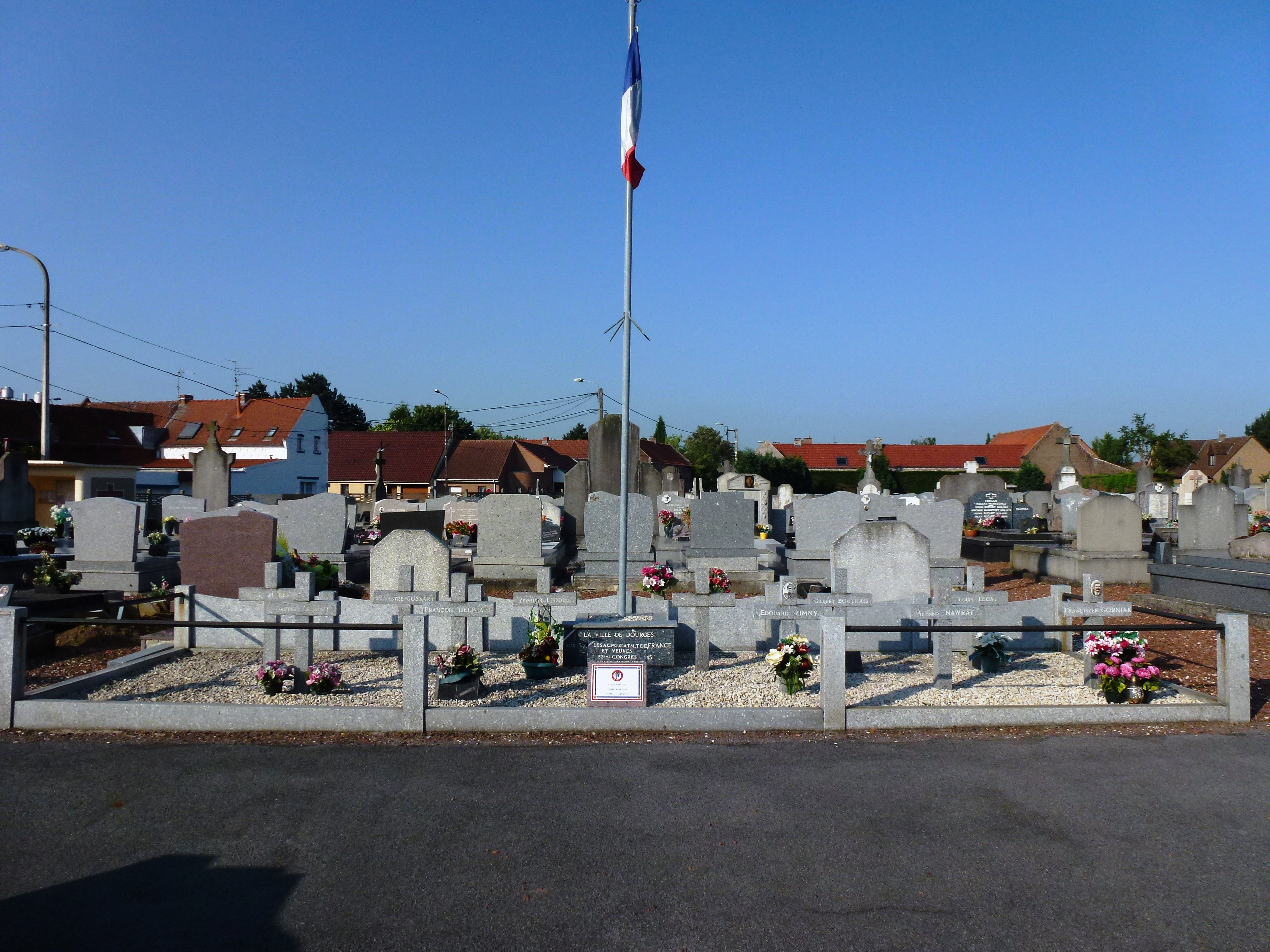 Dourges (Pas-de-Calais, Fr) cimetière. carré militaire français